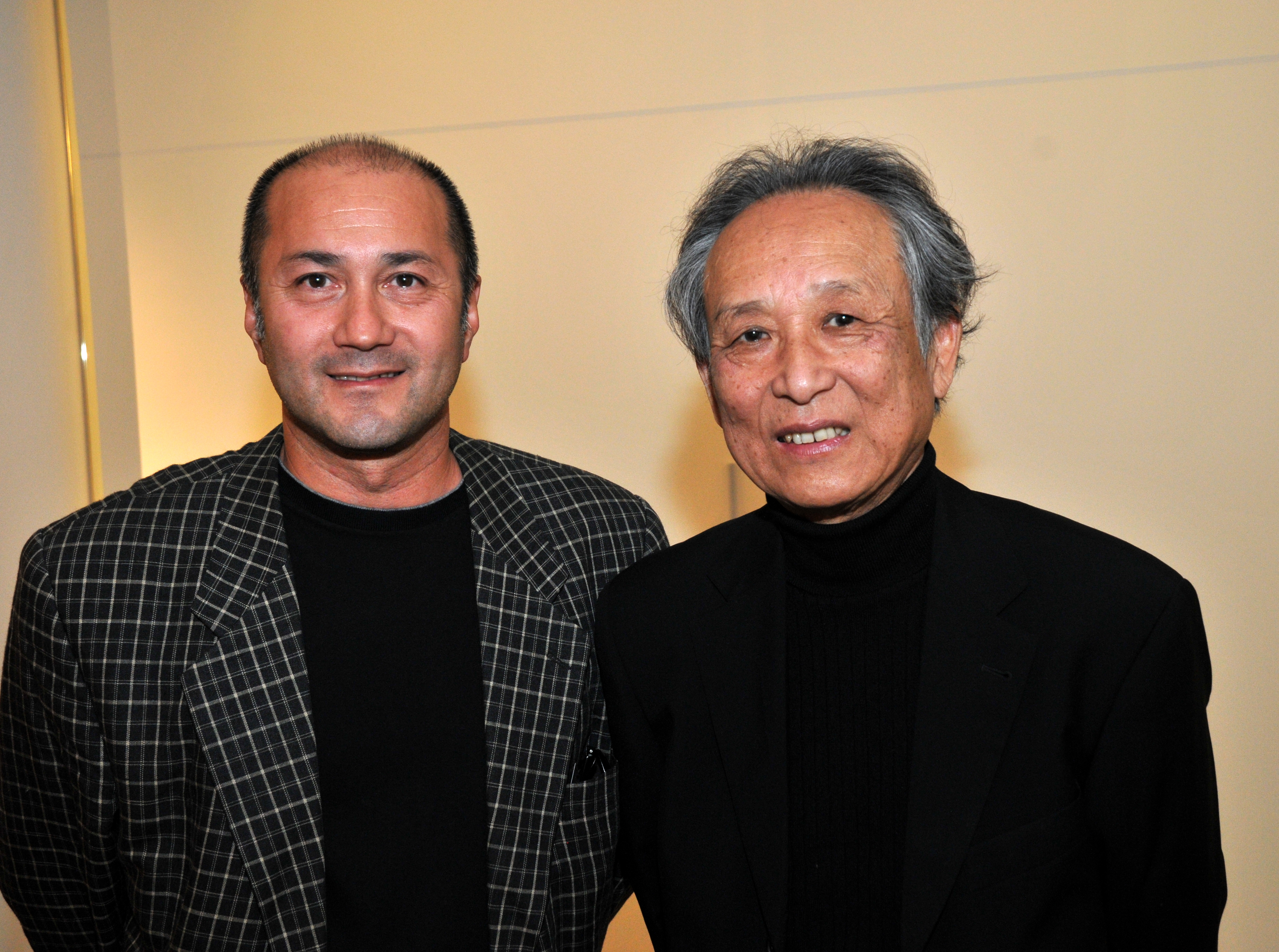 Gao Xingjian, painter and Nobel laureate in Literature, together with the Luxembourg painter ans sculptor Tung-Wen Margue at Galerie Simoncini in Luxembourg, September 2012.